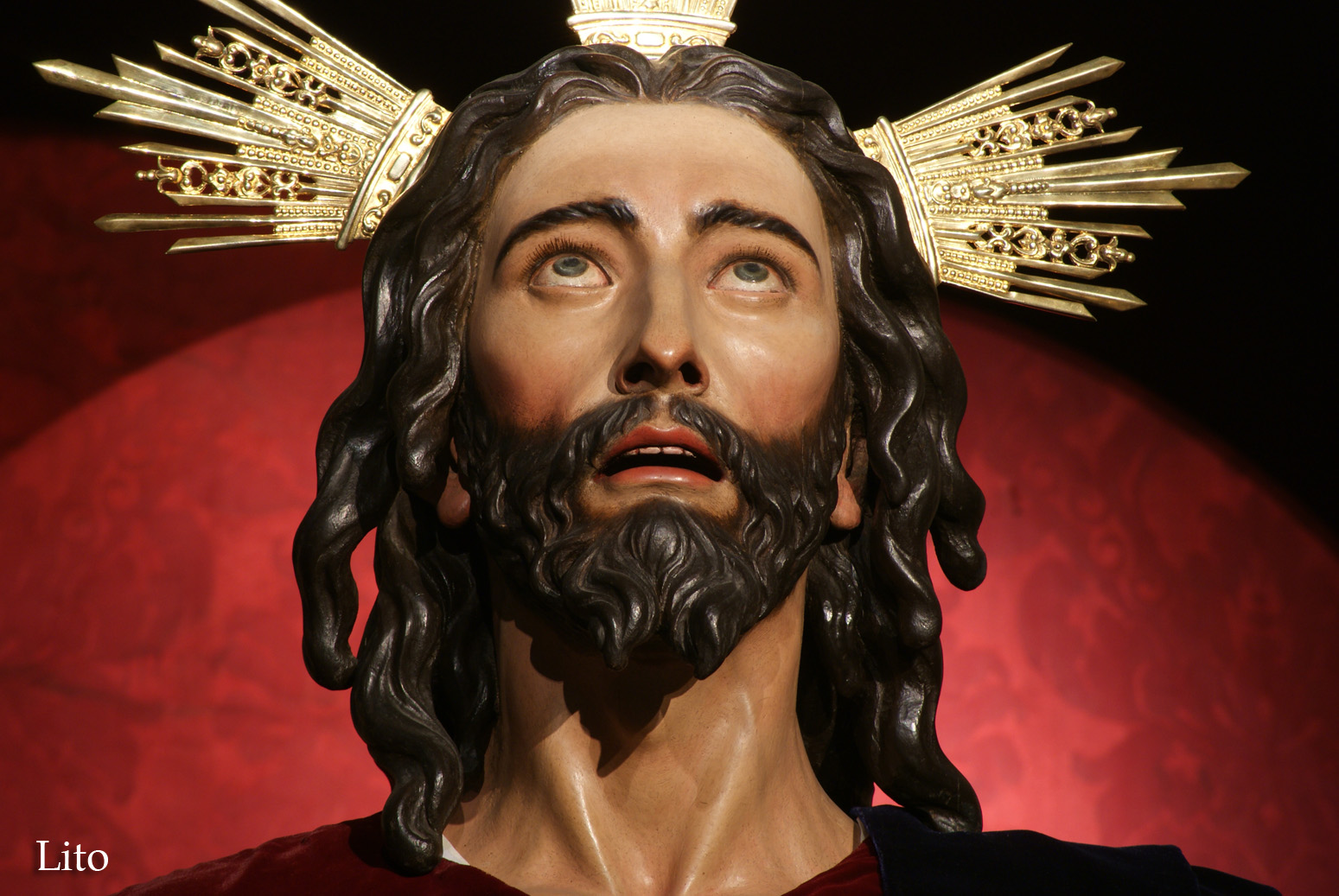 Nuestro Padre Jesús de la Sagrada Cena